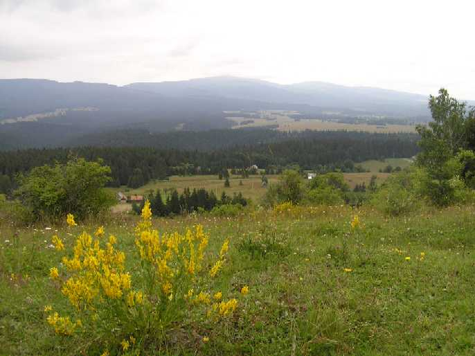 A Madarasi-Hargita gerince Küküllőmező felől nézve